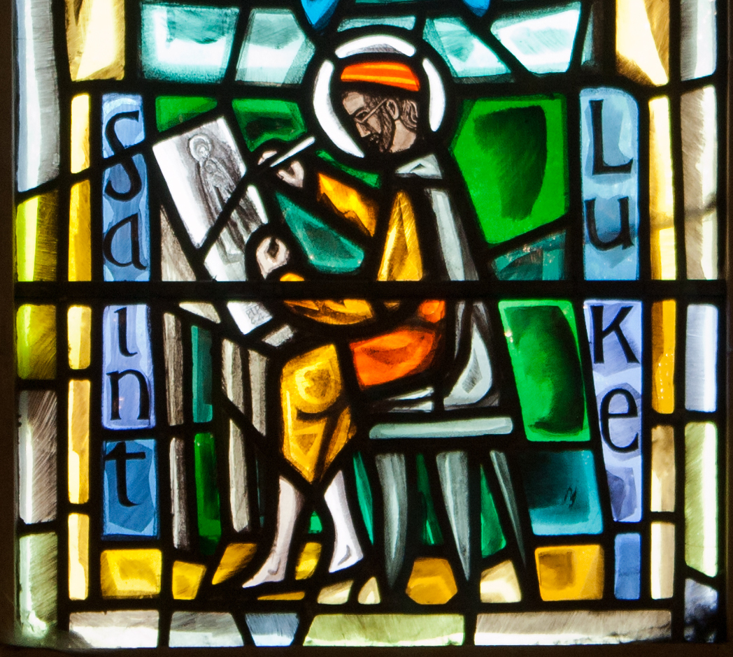 Detail of stained glass window in the Chapel of Laurence O'Toole, depicting Saint Luke, created by Patrick Pollen in memory of his teacher Catherine O'Brien of An Túr Gloine who died in 1963. Patrick Pollen (1928–2010) Description stained-glass artistDate of birth/death 12 January 1928 30 November 2010 Location of birth/death London Co. WexfordWork period1953–1997Work location Dublin; Salem, North CarolinaAuthority control : Q20273783 VIAF: 172308461 ISNI: 0000 0001 2251 9717 GND: 1013827864 creator QS:P170,Q20273783